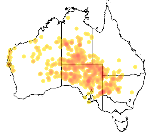 Atlas of Living Australia's distribution of recorded occurance of Nephrurus levis levis from 1984 to 2014